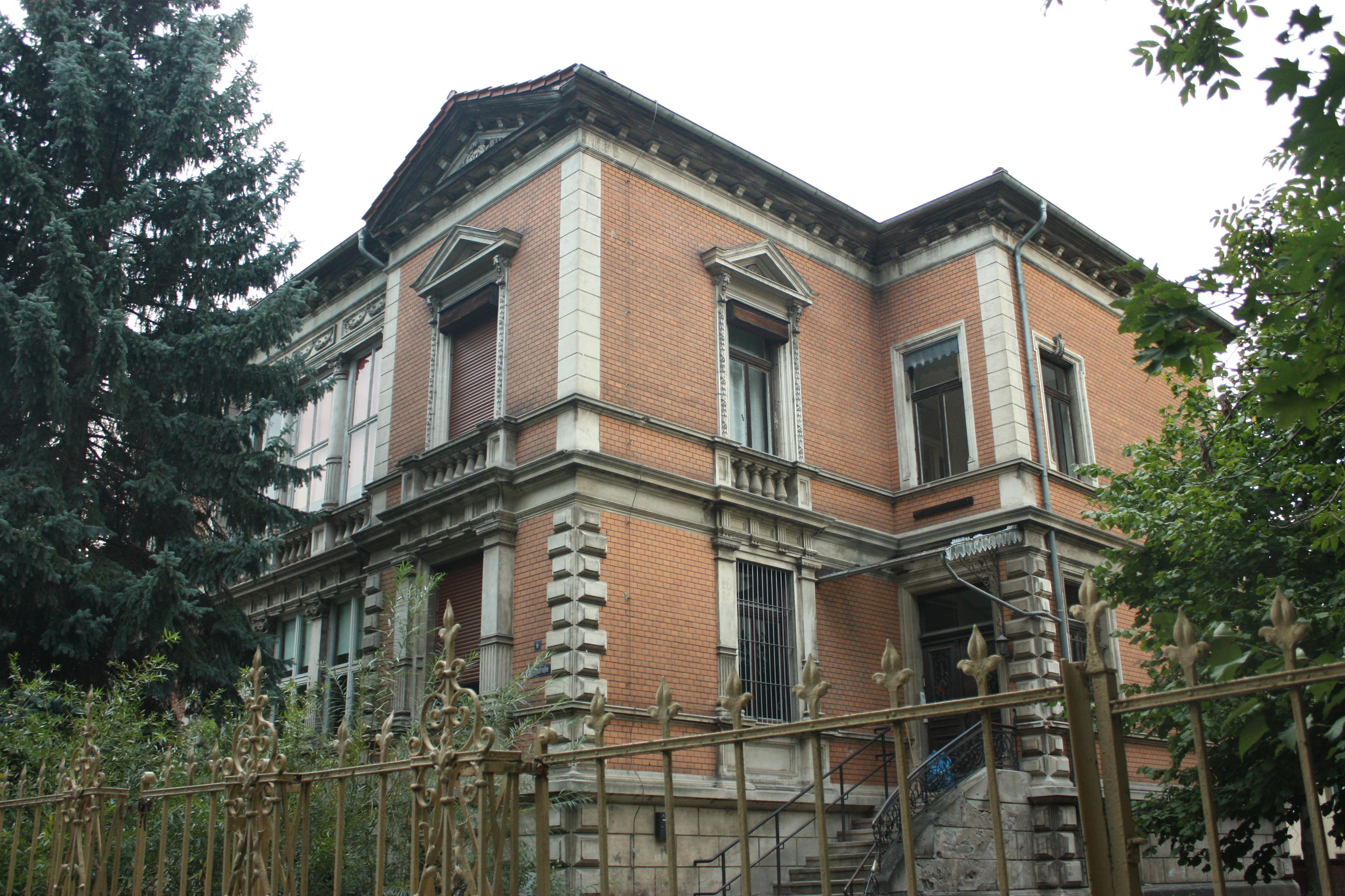 This is a photograph of an architectural monument.It is on the list of cultural monuments of Quedlinburg Brühlstraße 09 (Quedlinburg)